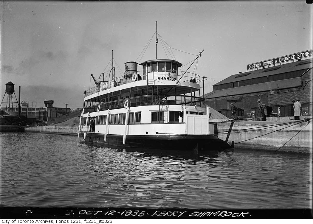 The Toronto Island ferry Shamrock, later named the William Inglis